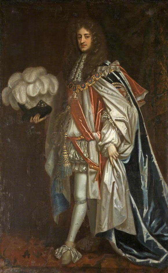 Duke of Beaufort (1629-1699), showed a rare loyalty to the Stuart Kings by refusing the oath of allegiance and retiring out of public life on the accession of William III in 1688.